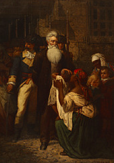 Thomas Satterwhite Noble's painting "John Brown's Blessing" (1867)